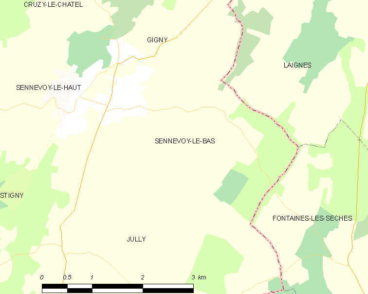 Map of French municipality Sennevoy-le-Bas